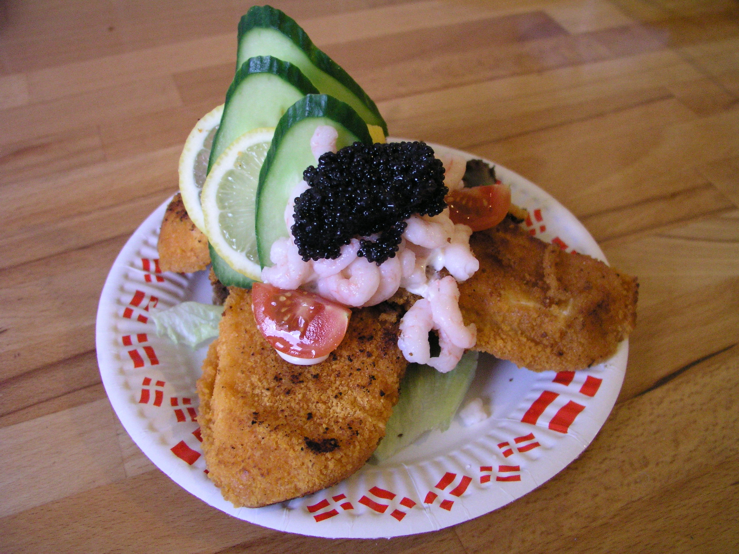 Danish open sandwich (smørrebrød) on dark rye bread (almost covered) with breaded xxx fish, salad, cucumber, shrimps, black-colored lumpfish roe (sort stenbiderrogn) and tomato.